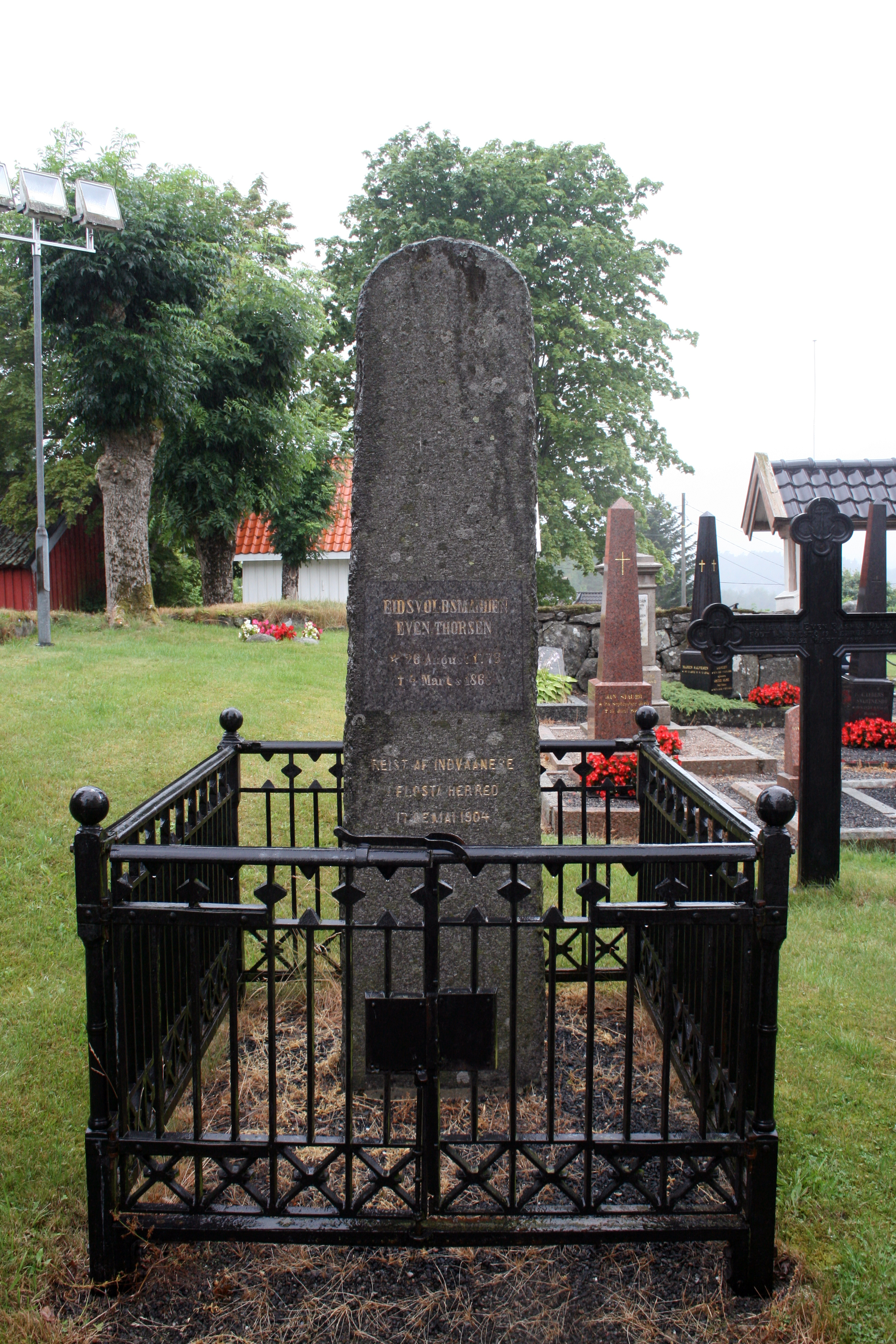 Flosta church in Arendal municipalty in Norway. Erected 17th century; rebuilt 1747 and 1864; restored 1971. Grave of Even Thorsen, member of the Norwegian constitutional assembly of 1814.